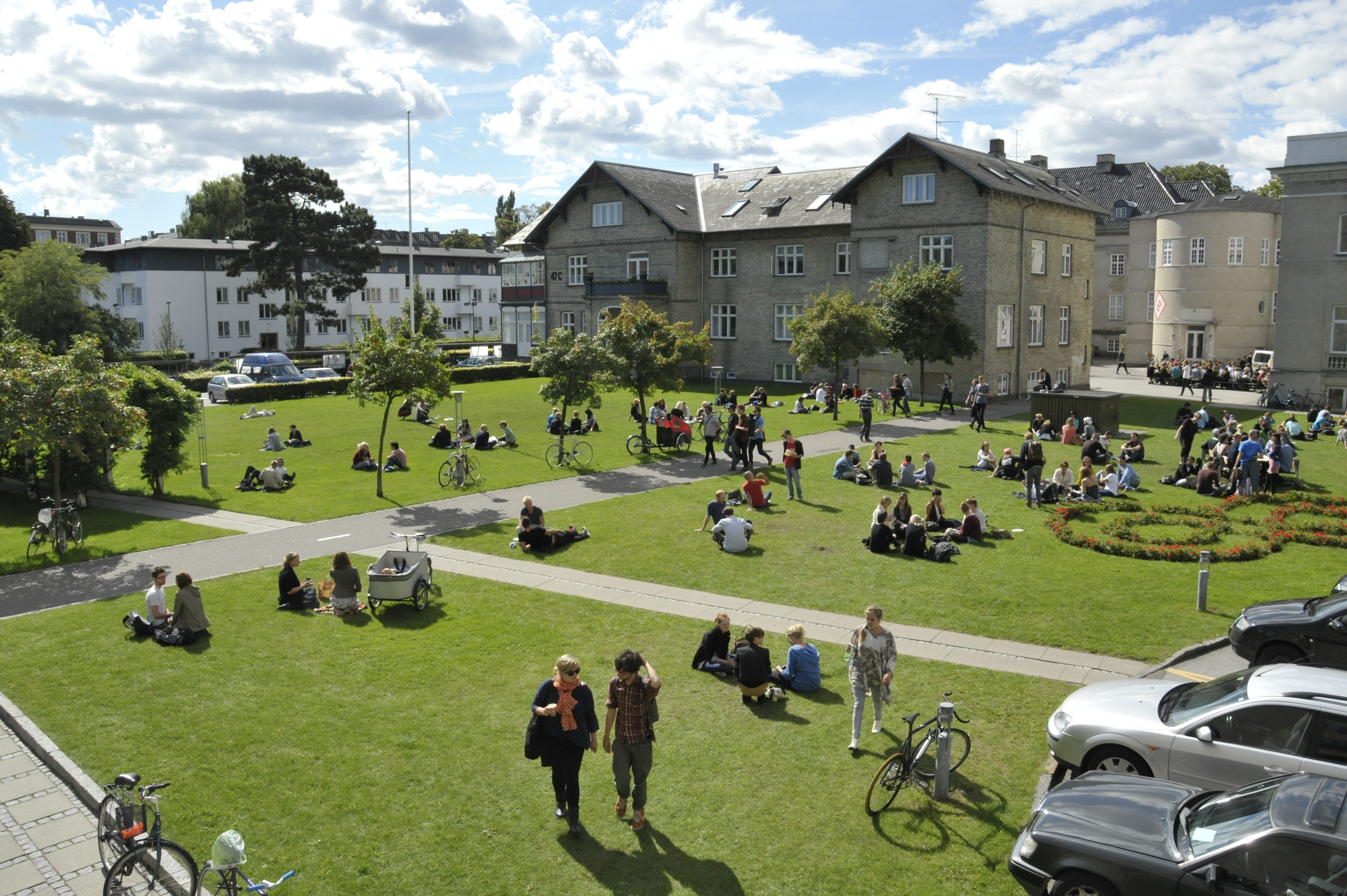 The campus area of the Danish Design School photographed in 2010 while it was located in the former buildings of the Finsen Institute at Strandboulevarden in the Østerbro district of Copenhagen. In 2011 the design school relocated to Holmen after a merger with the School of Architecture.